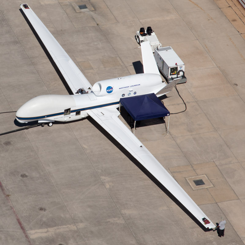 This aerial photo of NASA's Global Hawk was taken at the Wallops Flight Facility, Wallops Island, Va., outside of hangar N-159. Nearby cars put the size of the Global Hawk in perspective. The 44-foot-long Global Hawk has a wingspan of more than 116 feet, a height of 15 feet, and a gross takeoff weight of 26,750 pounds. Global Hawks are part of the Hurricane and Severe Storm Sentinel (HS3) mission. Credit: NASA Wallops NASA image use policy. NASA Goddard Space Flight Center enables NASA’s mission through four scientific endeavors: Earth Science, Heliophysics, Solar System Exploration, and Astrophysics. Goddard plays a leading role in NASA’s accomplishments by contributing compelling scientific knowledge to advance the Agency’s mission. Follow us on Twitter Like us on Facebook Find us on Instagram